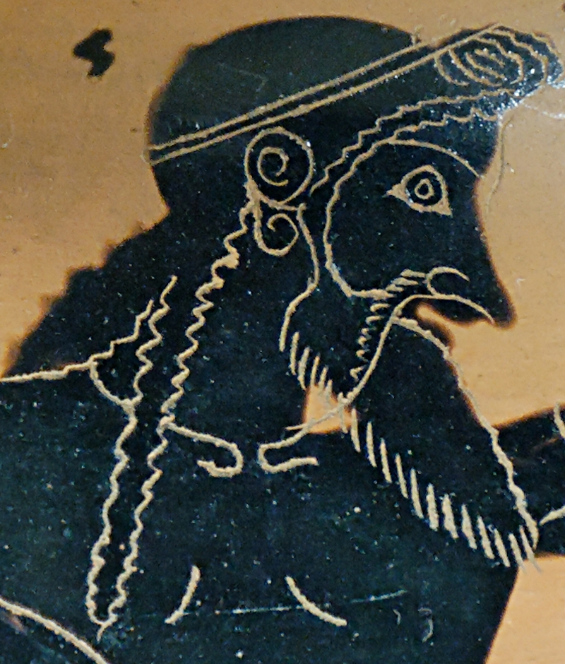 Agamemnon's head, detail from the dispute between Ajax and Odysseus for Achilles' armour. Attic black-figure oinochoe, ca. 520 BC.